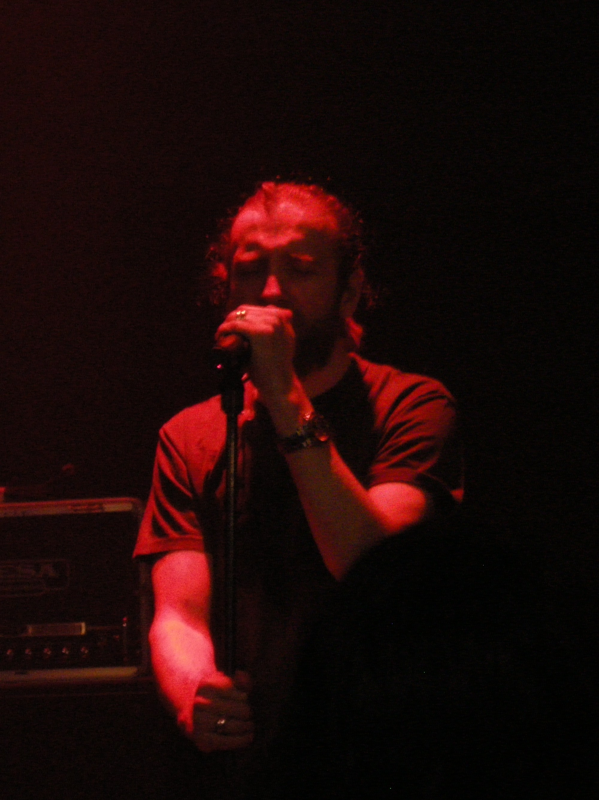 Nick Holmes, Paradise Lost singer, at Close-Up Boat, February 2011